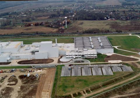 Oroszlány, Wescast exhaust factory; Hungary, aerialphotography